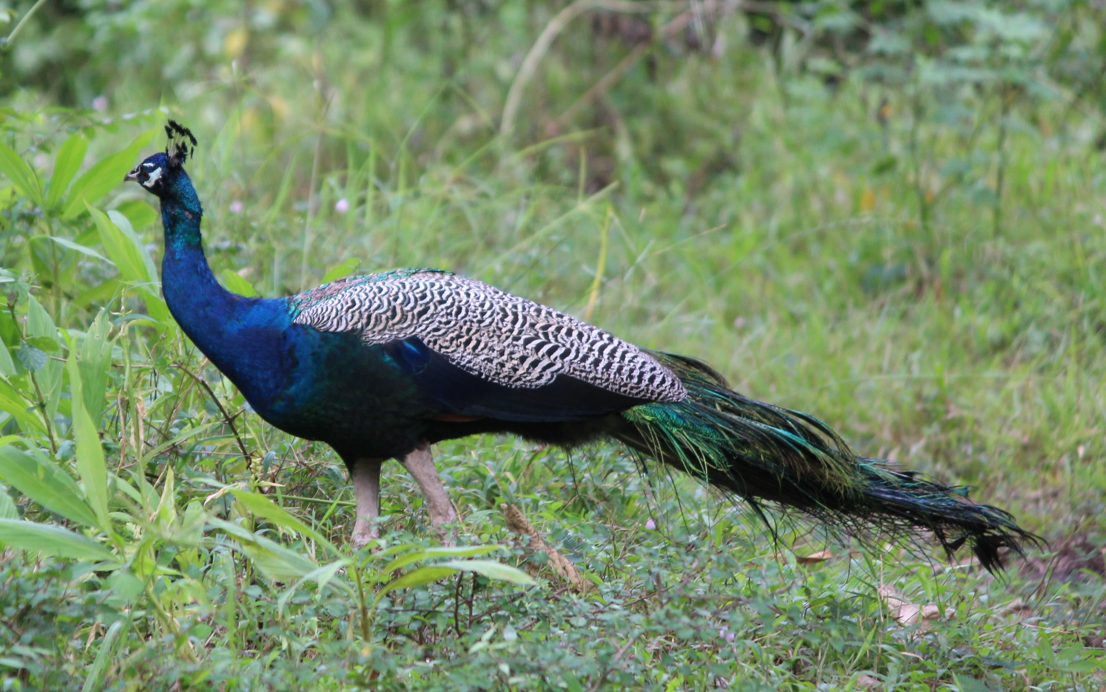 Indian peacock (Pavo cristatus) in Tholpetty Wildlife Sanctuary, Wayanad.